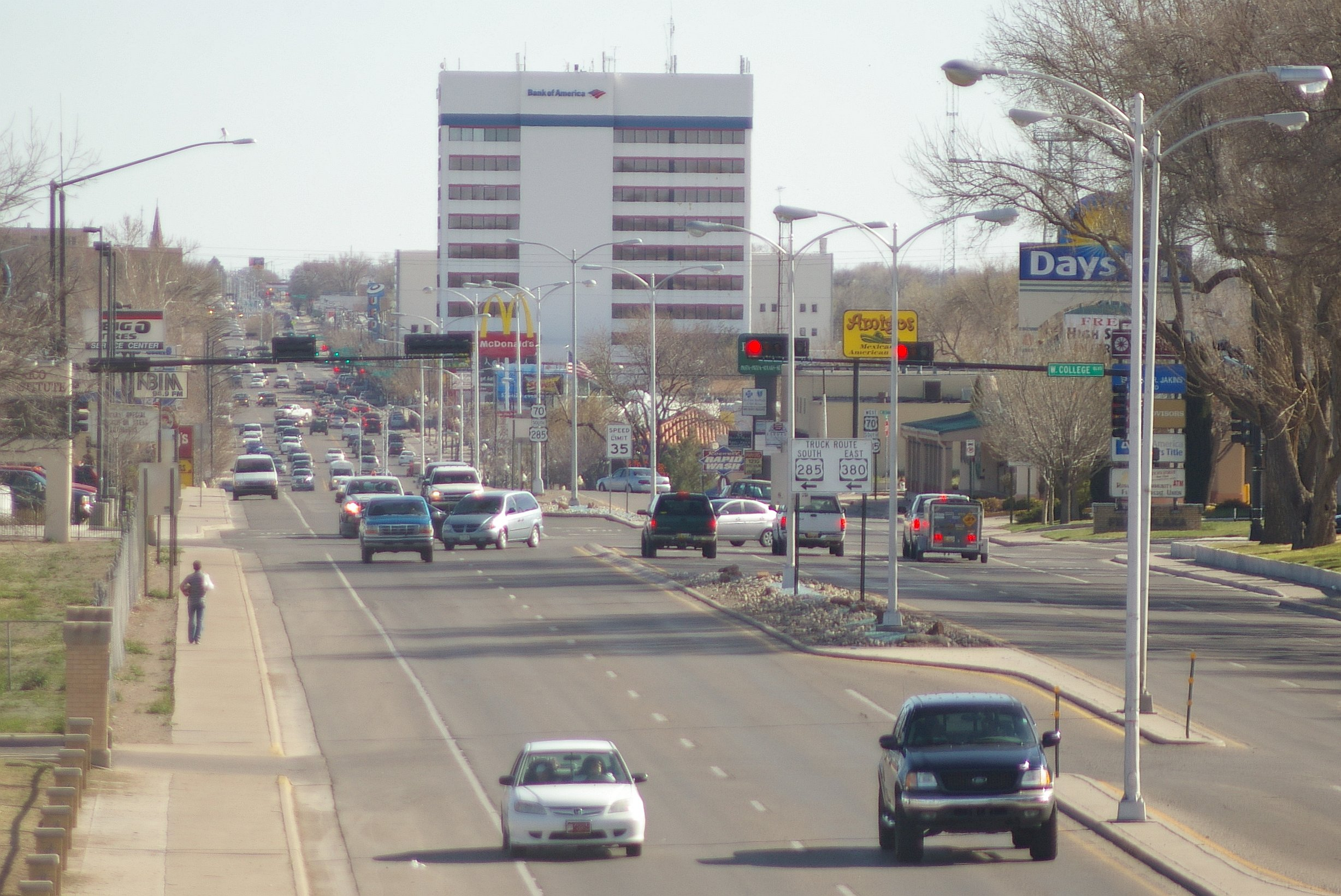 A view of Main Street Roswell, NM from the pedestrian overpass on the New Mexico Military Institute campus.